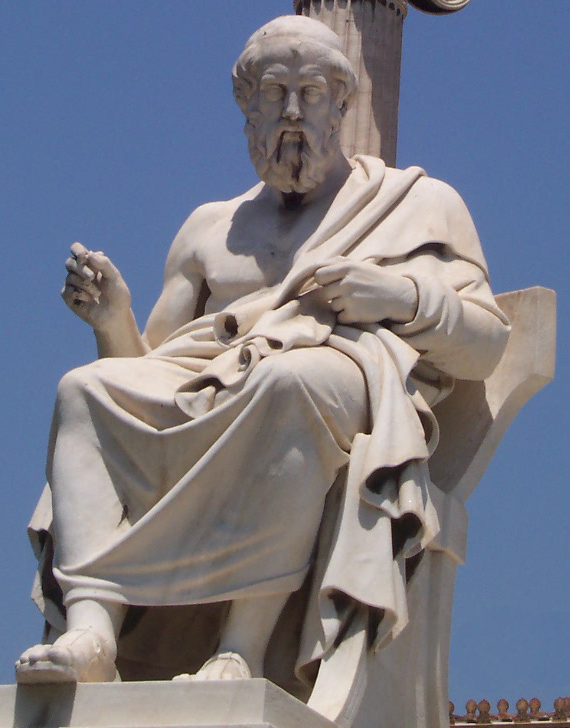 Platon sculpture in the modern Academy of Athens